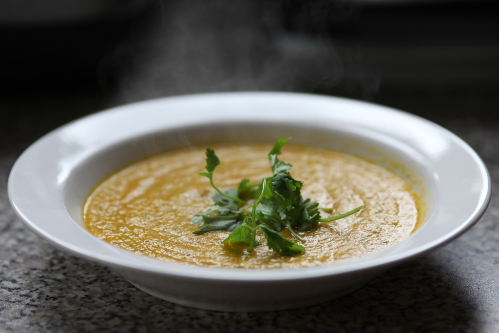 Carrot soup with garnish